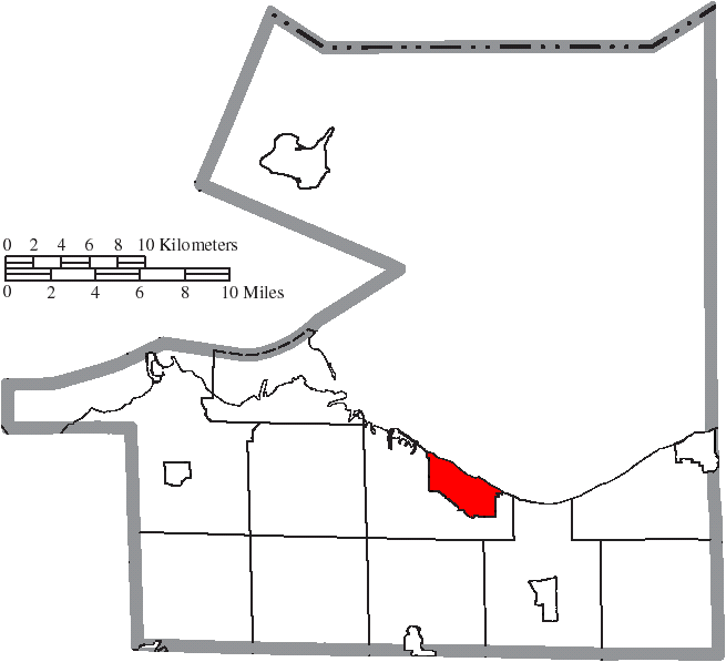 Map of the municipal and township boundaries of Erie County, Ohio, United States, as of the 2000 census, with the location of the city of Huron highlighted. Township borders are shown only in unincorporated areas in order to differentiate incorporated and unincorporated areas more clearly.